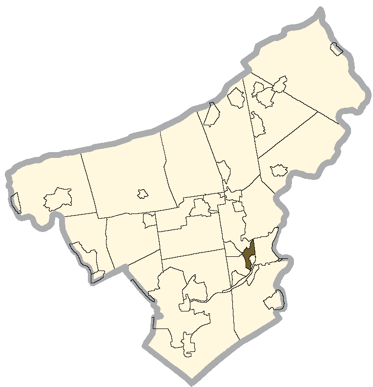 Wilson shaded on the Northampton county map.